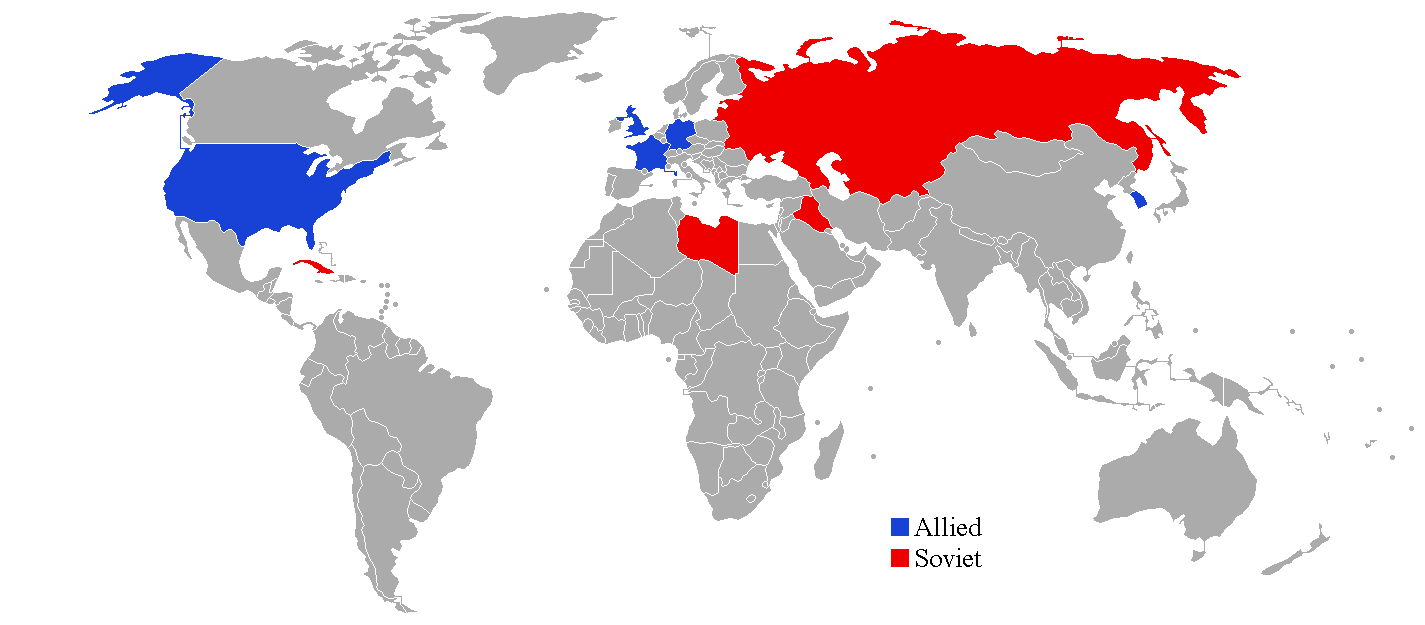 Countries in the game Red Alert 2; Blue: Allied, Red: Soviet